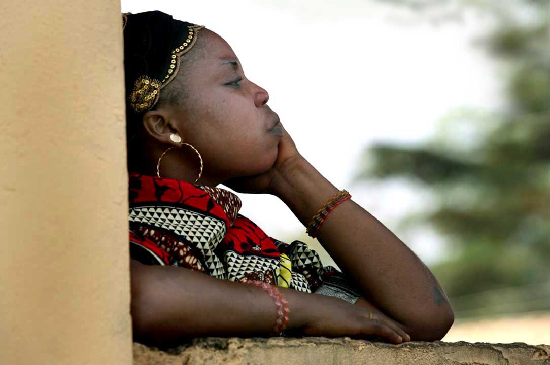 Ghana / Ivory Coast border... . . . Pride . . . [For WACC Group: Instead of choosing images of women "communicating", i decided to choose images that communicate women.]